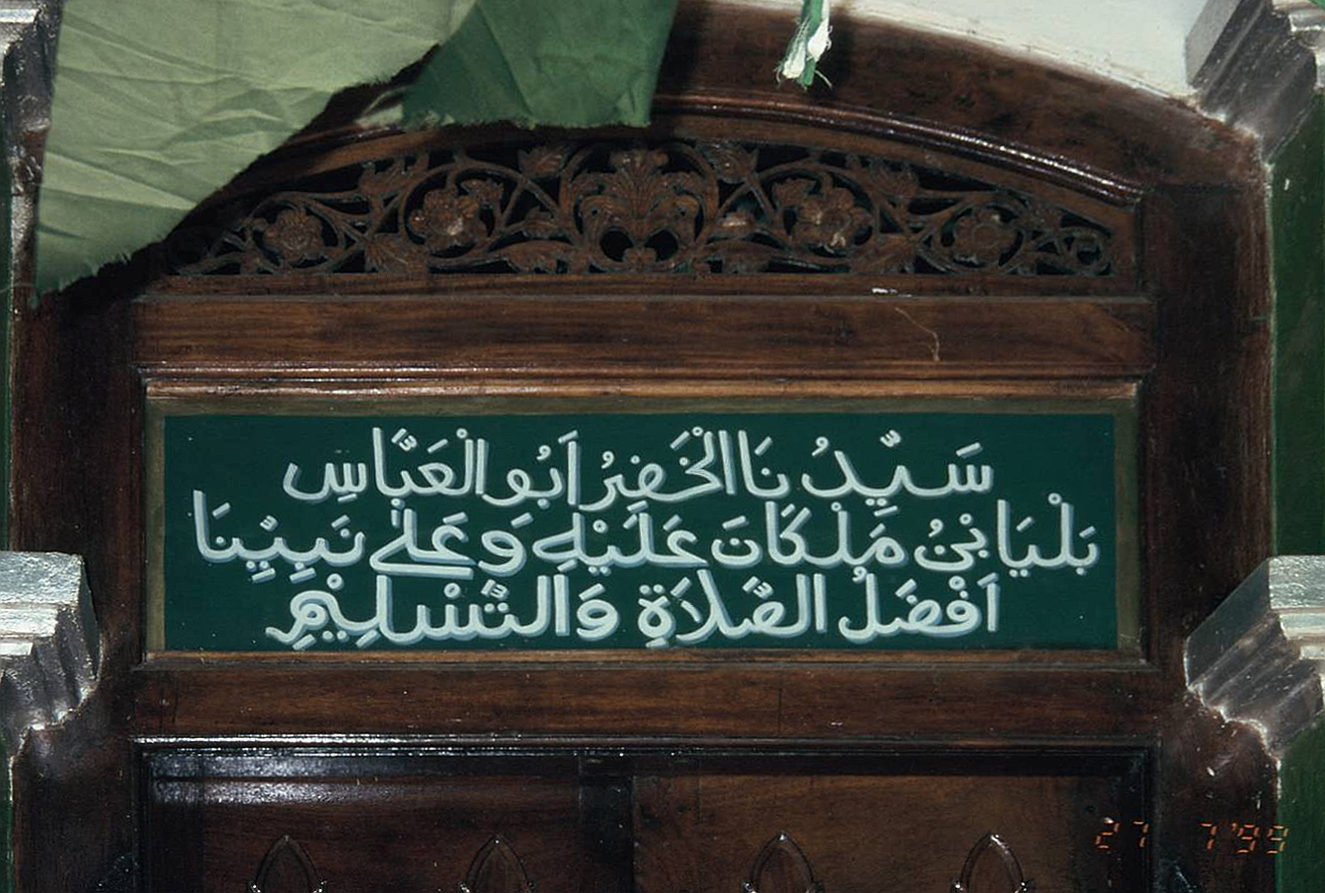 Arabic Inscription at the entrance of the Khidr-Mosque of Kataragama: "Our Lord al-Khidr Abu l-Abbas Balya ibn Malkan".